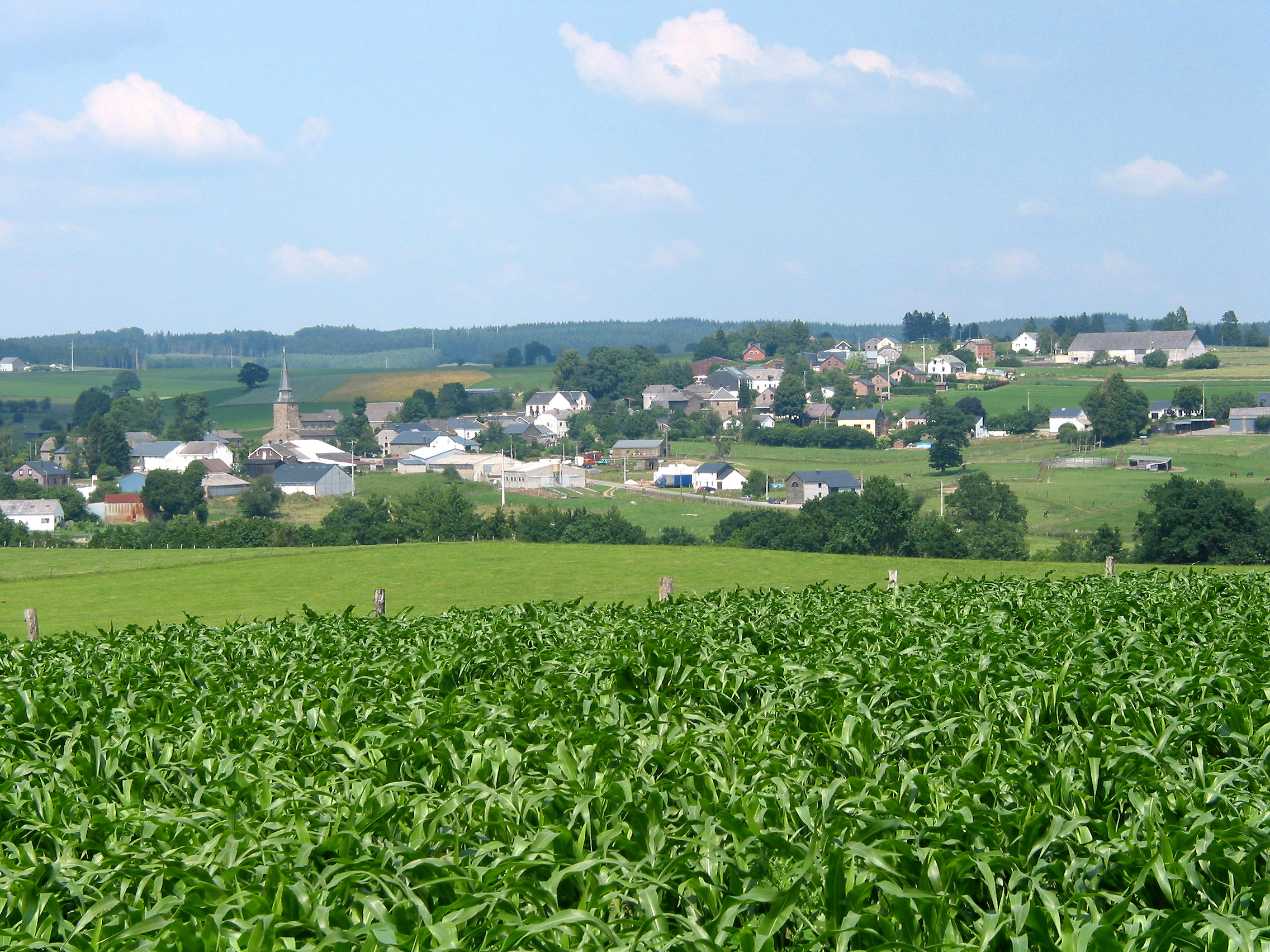 Cherain, Gouvy, Belgium, the village surrounded by its meadows and farm fields.